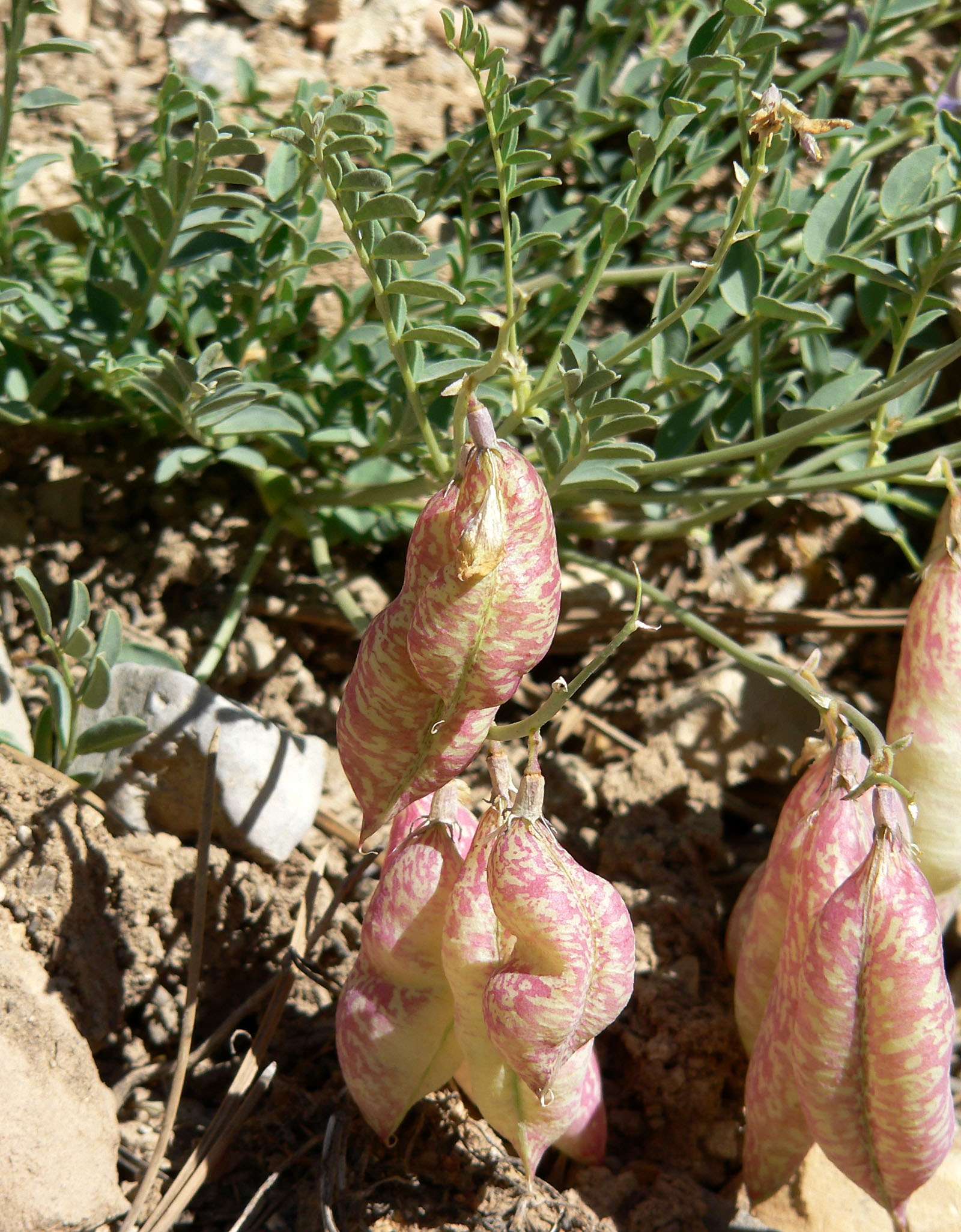 Astragalus oophorus var. clokeyanus alongside the Bristlecone Trail, Lee Canyon, Spring Mountains, southern Nevada (elev. about 2700 m)